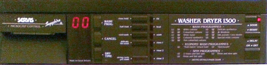 Close up of the controls of the Servis Sapphire 1300 Washer Dryer 9635.